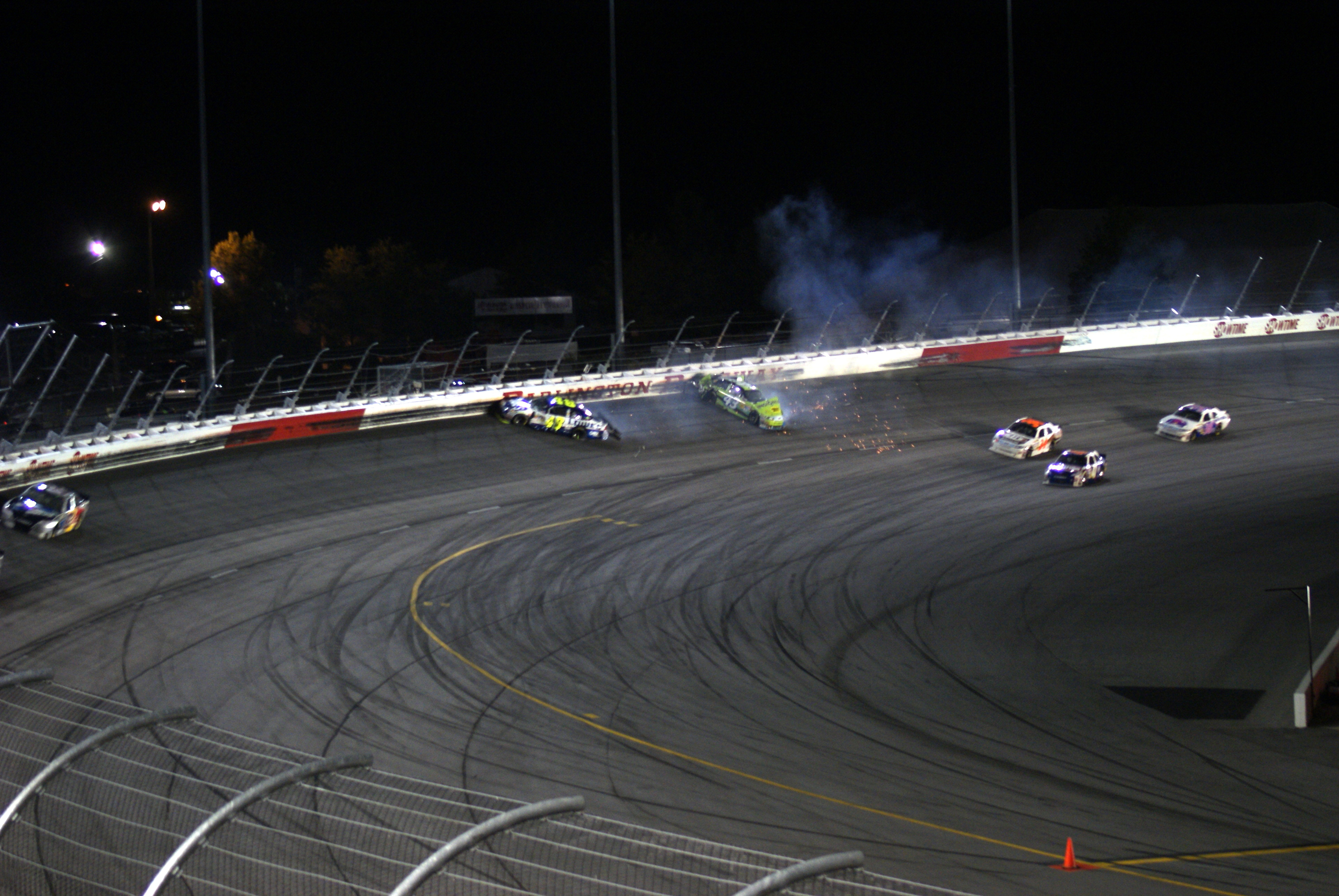 Jimmie Johnson's and A. J. Allmendinger's accident during the 2010 Showtime Southern 500.